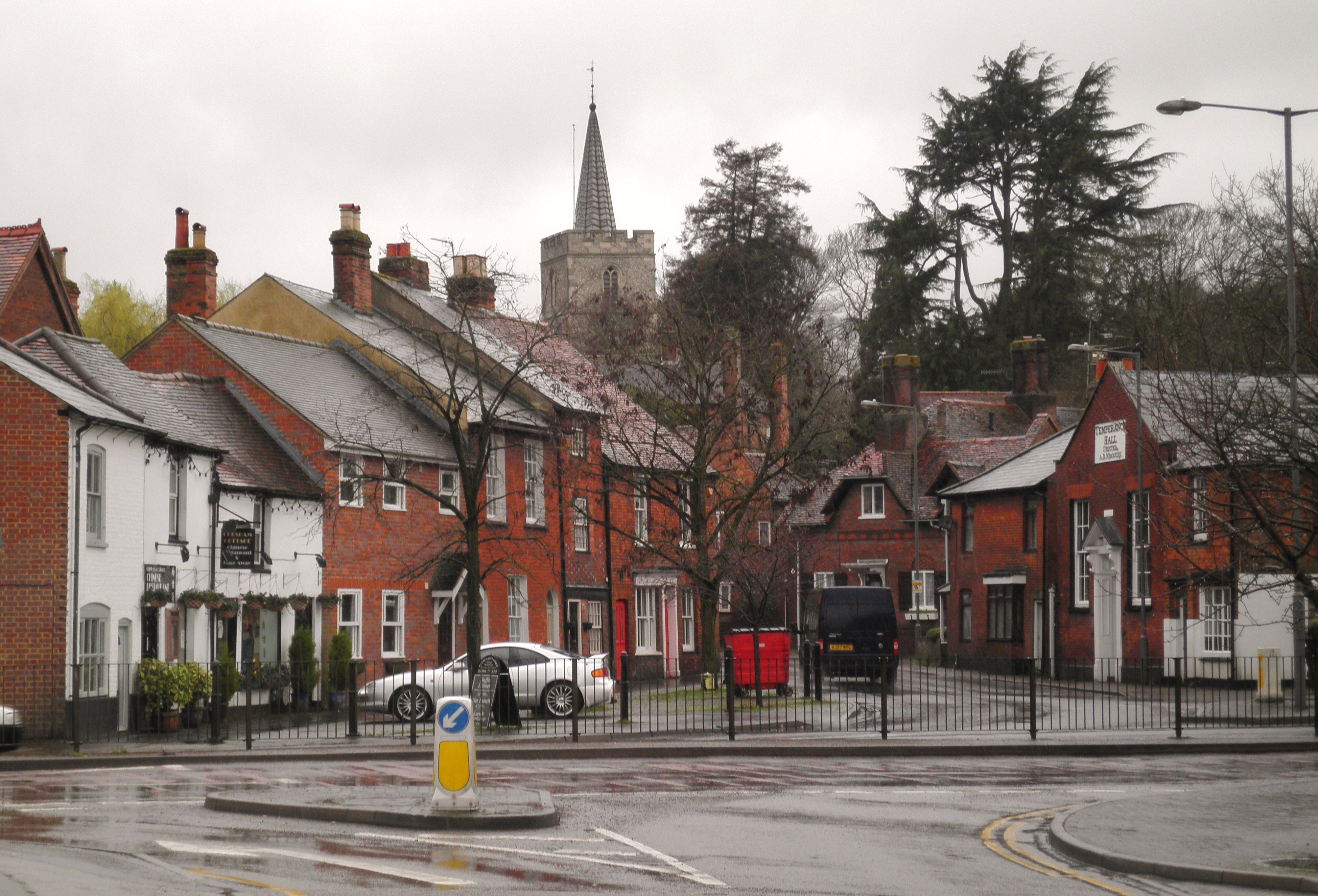 Old Chesham and St Mary's Church, Chesham, Buckinghamshire